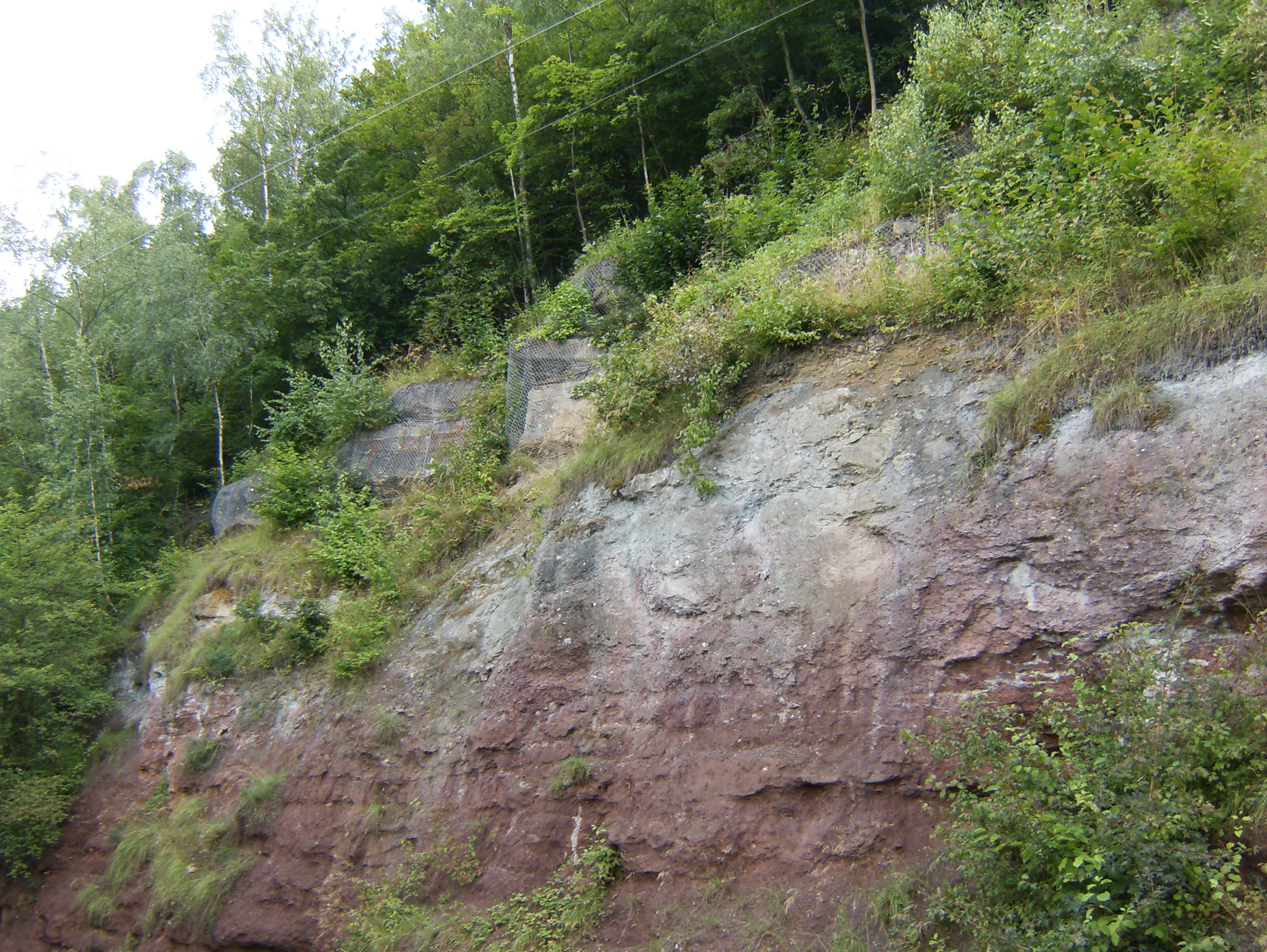 Something very special for people interested in geology: Outcrop in the so called "Schiefergasse" above Milbitz village (suburb of Gera, Thuringia), showing the so called Zechstein transgression. Terrestrial redbeds are overlain by a transgressional conglomerate grading into marine limestones (“Mutterflöz”, secured against rockfall by mesh wire and partly covered by vegetation).